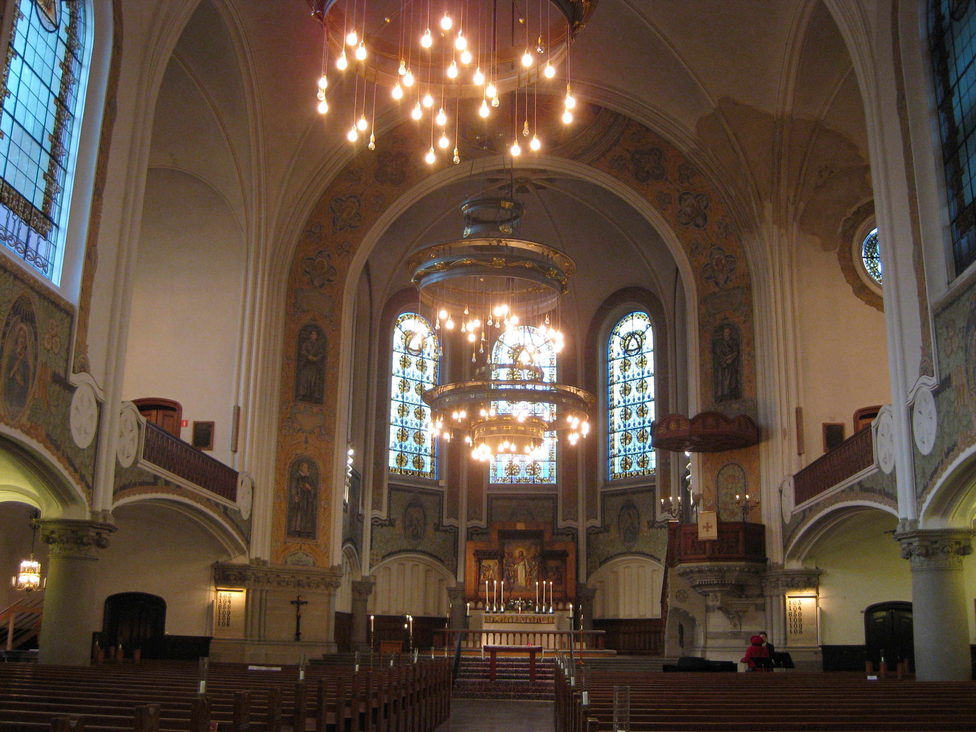 Interior of Sankt Johannes kyrka ( Saint Johns church ) in Malmö, Sweden